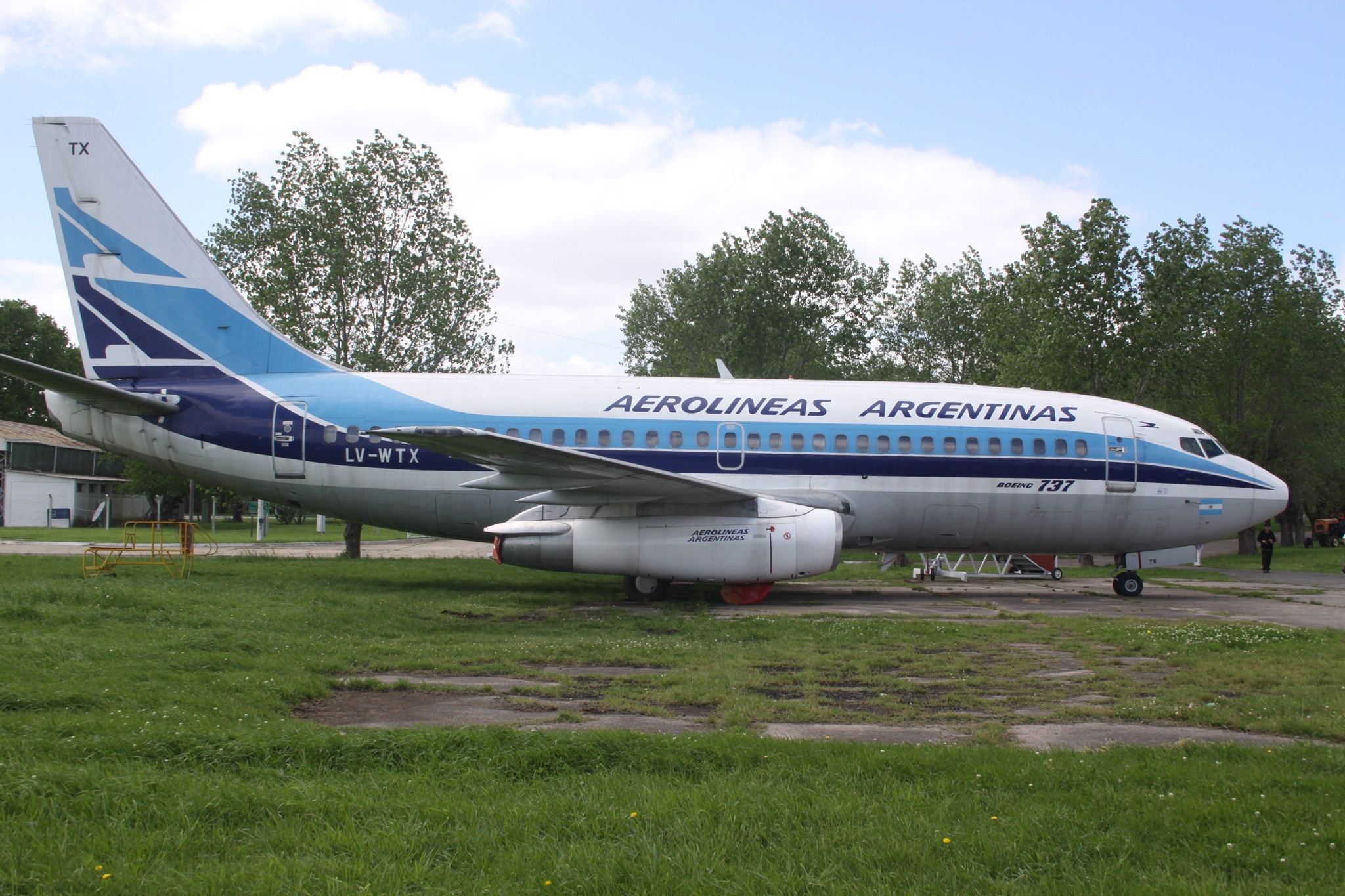 At Moron Airfield